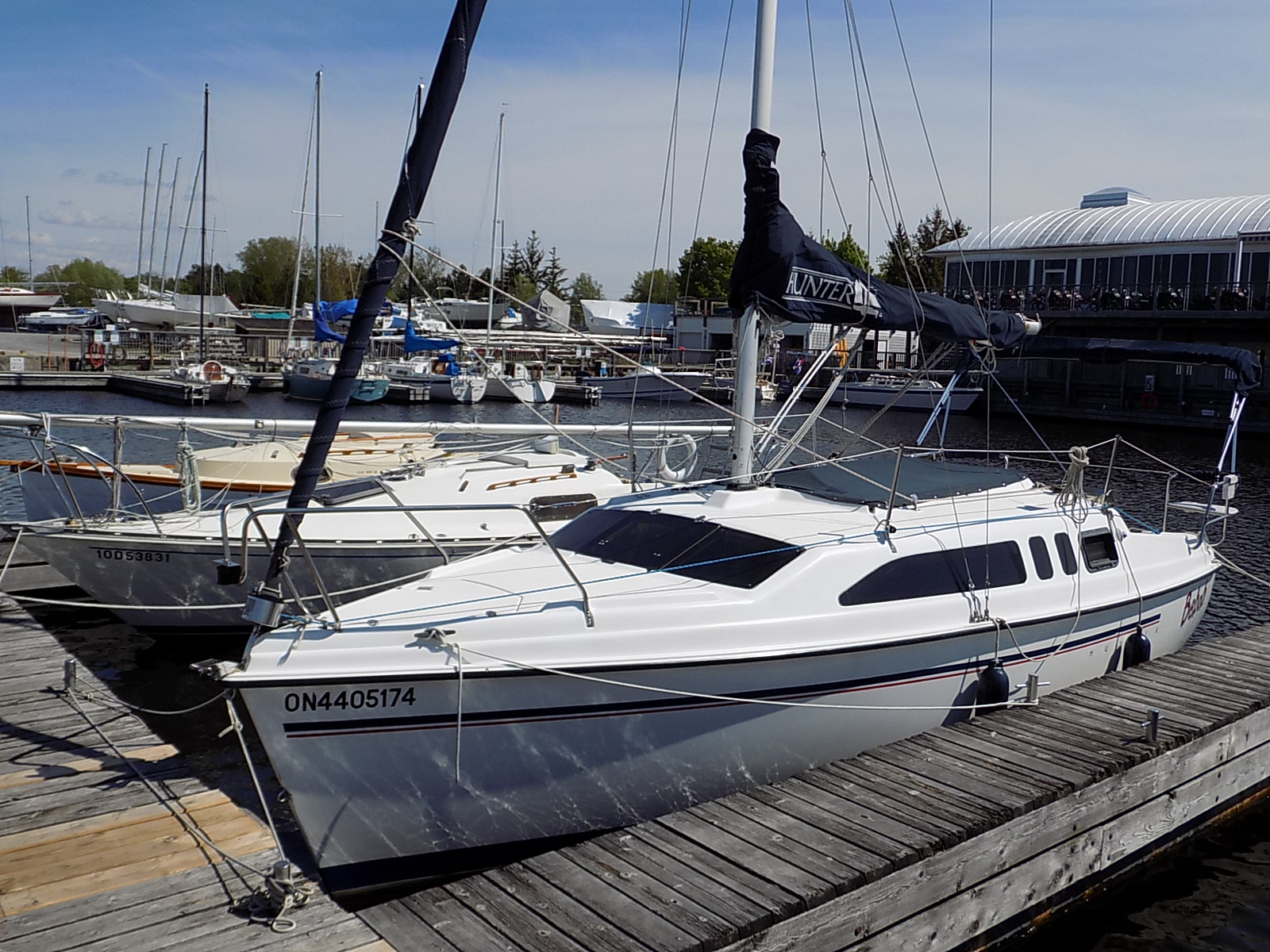 A Hunter 26 sailboat named Bebob.